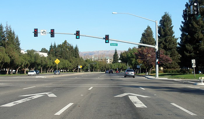 Santa Clara County Route G4 (Montague Expressway) near the intersection with Zanker Road in San Jose.